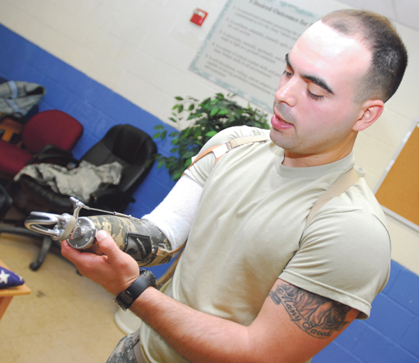 Staff Sgt. Luis Elias lost his right hand in June of 2009, but prosthetic devices and a robotic bionic hand got him back on the job as a drill sergeant. See more at Drill sergeant returns to duty following amputation